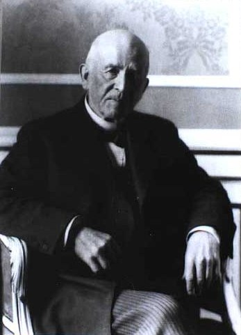 Danish statistician, economist and politician, MP Vigand Andreas Falbe-Hansen (1841-1932)